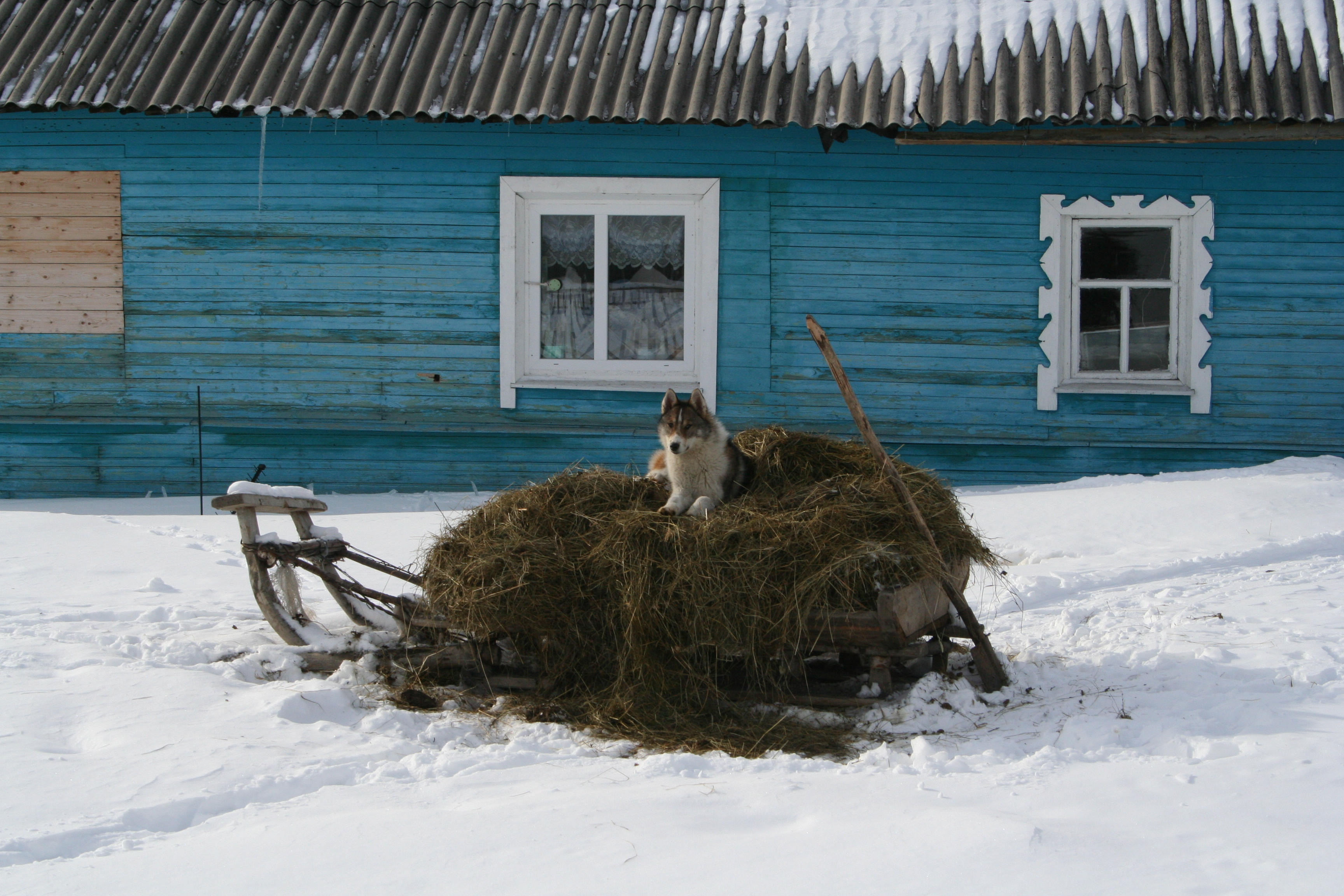 Dog on a sled in Krasnobor